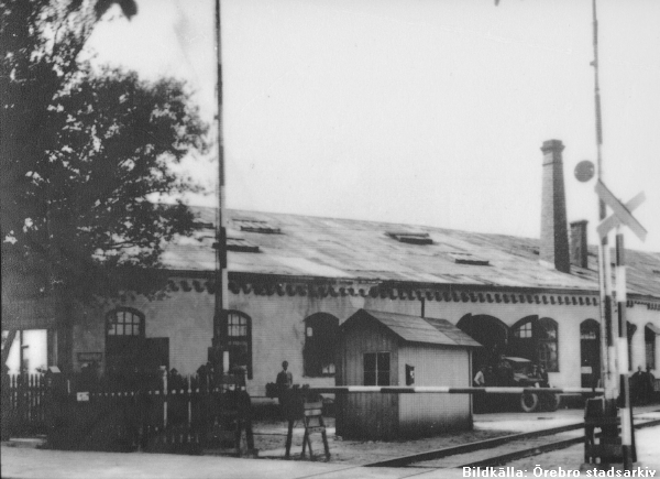 Buildings for Köping-Hult railroad in Örebro, Sweden